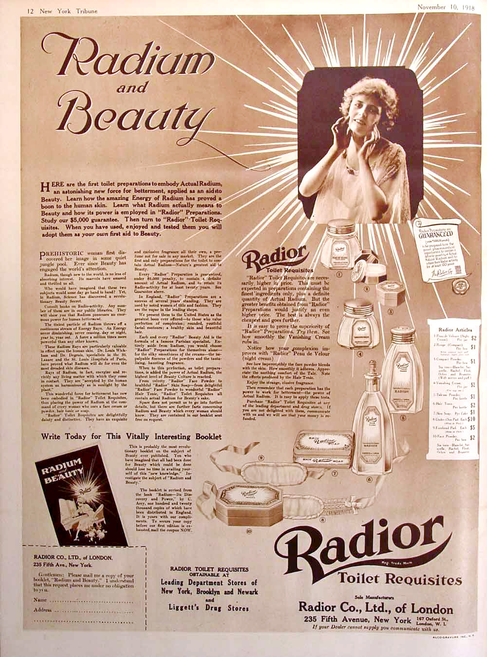 Ad for Radior cosmetics which the manufacturer claimed contained radium. The radium was supposed to have health benefits for one's skin. Powders, skin creams and soap were part of this line, which was made in London and also sold in the US.